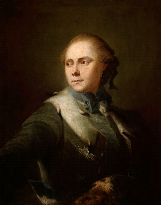 Dorothea Maria Losch (1730-1799), Swedish Sea Captain.